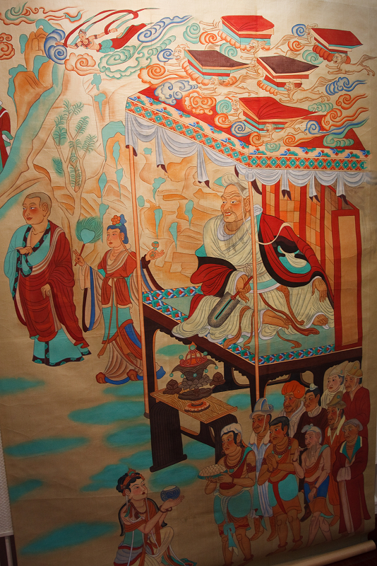 Vimalakirti Bodhisattva debates Manjusri Bodhisattva. Scene from the Vimalakirti Nirdesa Sutra. Dunhuang, Mogao Caves, China, Tang Dynasty.